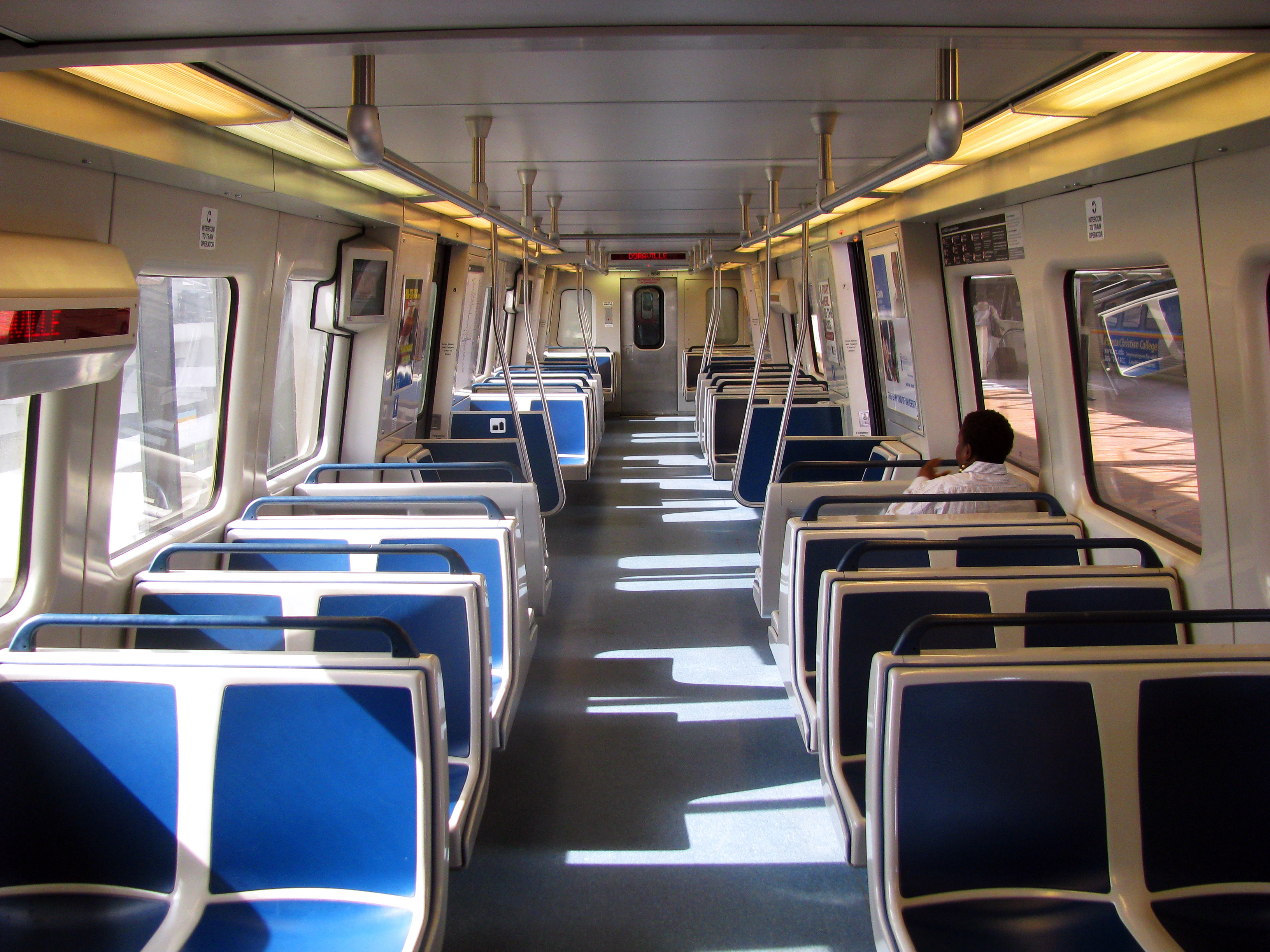 Only one person!